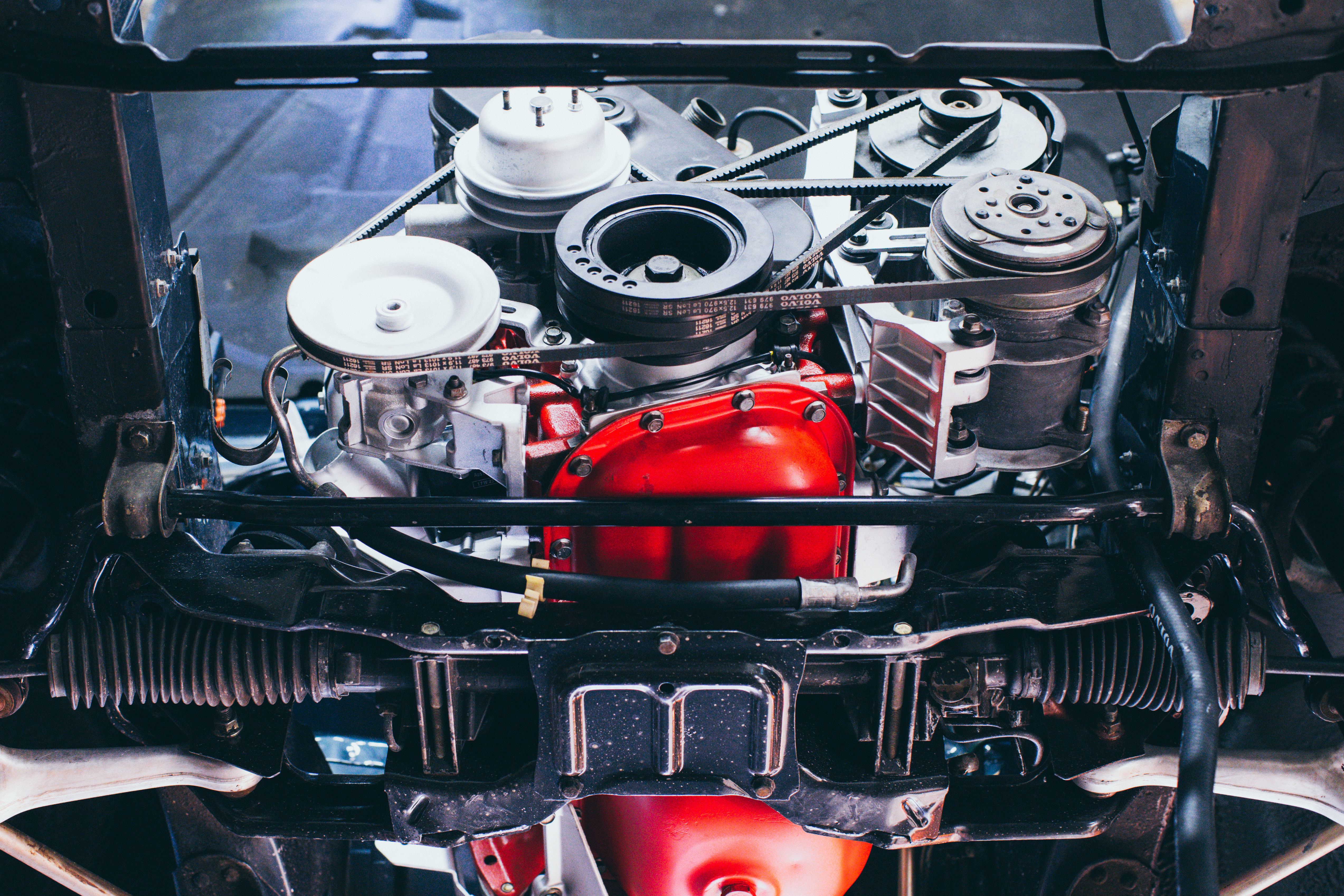 1989 Volvo 745 B230F Engine photographed from below vehicle, looking up. Radiator and AC Condenser removed for visibility.